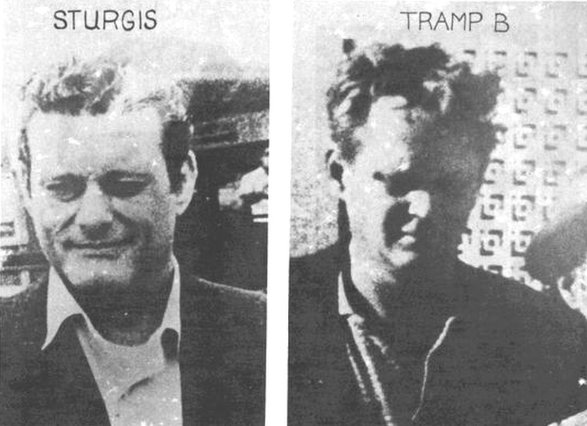 Frank Sturgis and one of "Three Tramps" arrested shortly after the assassination of President John F Kennedy